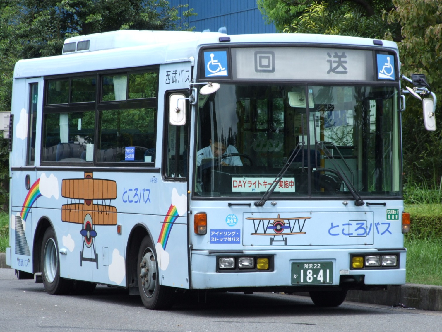 TOKORO BUS -Tokorozawa City Community Bus-, Japan